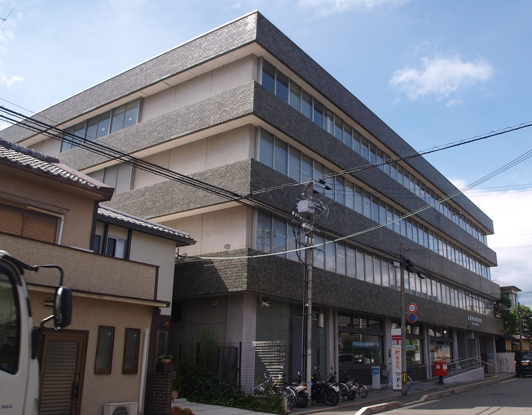 Facility of Kyoto-okazaki postoffice (former Sakyo postoffice) , 2017,Aug.4th.